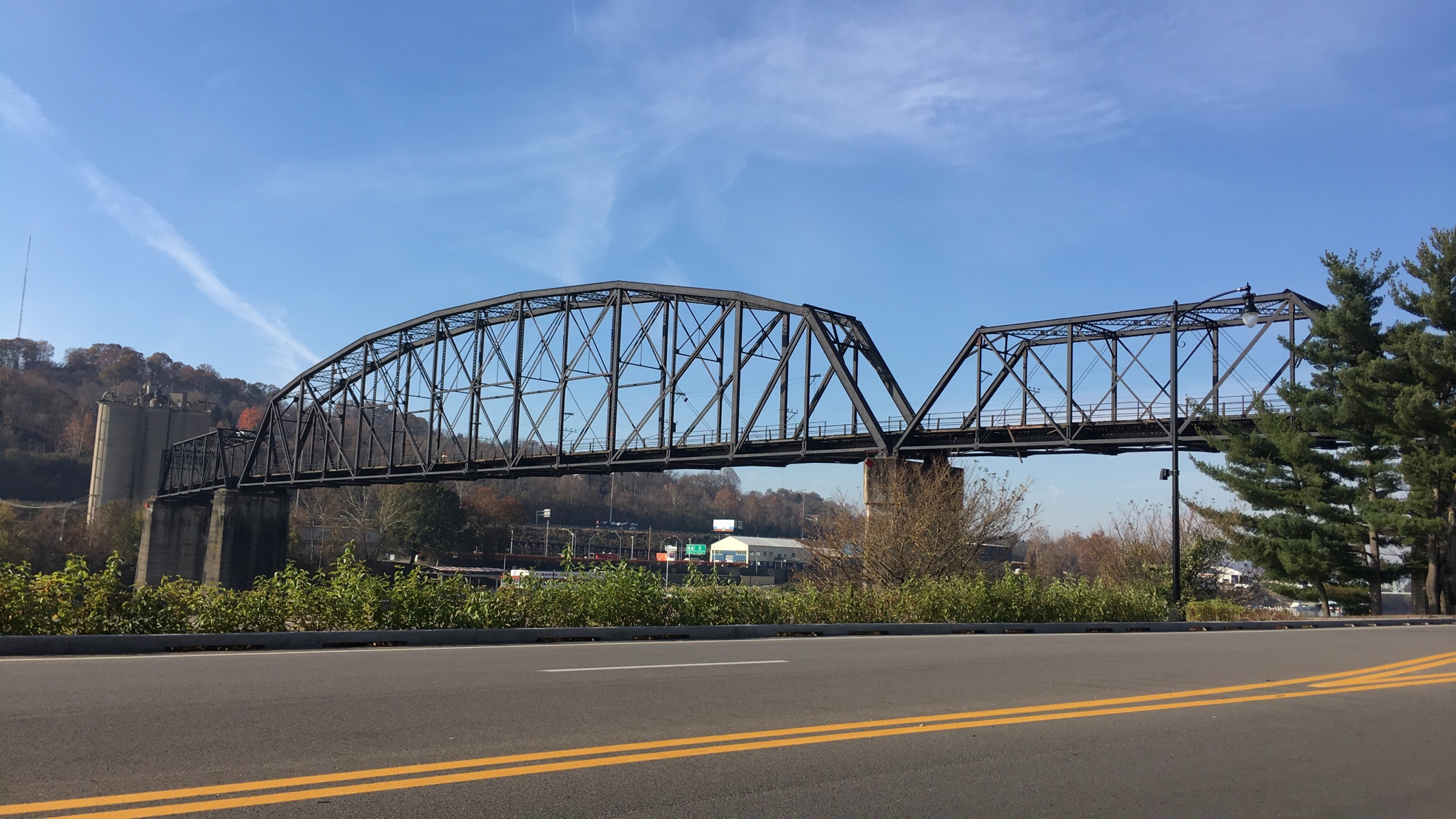 Abandoned rail bridge and Kanawha Blvd W in Charleston, WV.